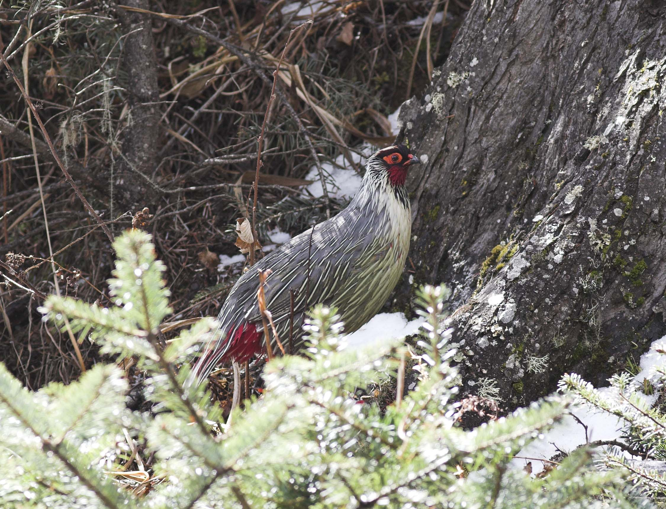 Blood Pheasant